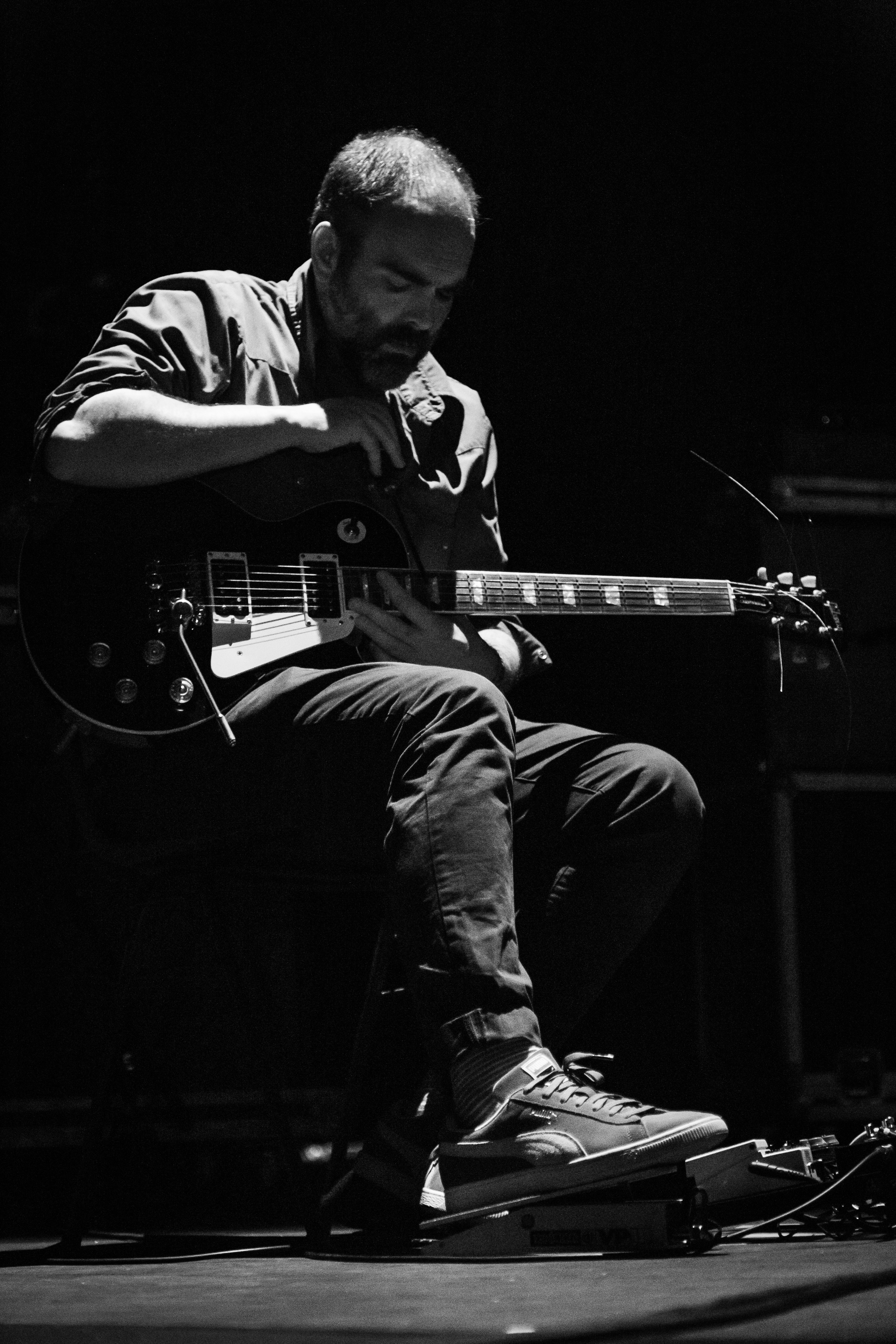 Godspeed You! Black Emperor performing live at Roadburn Festival 2018